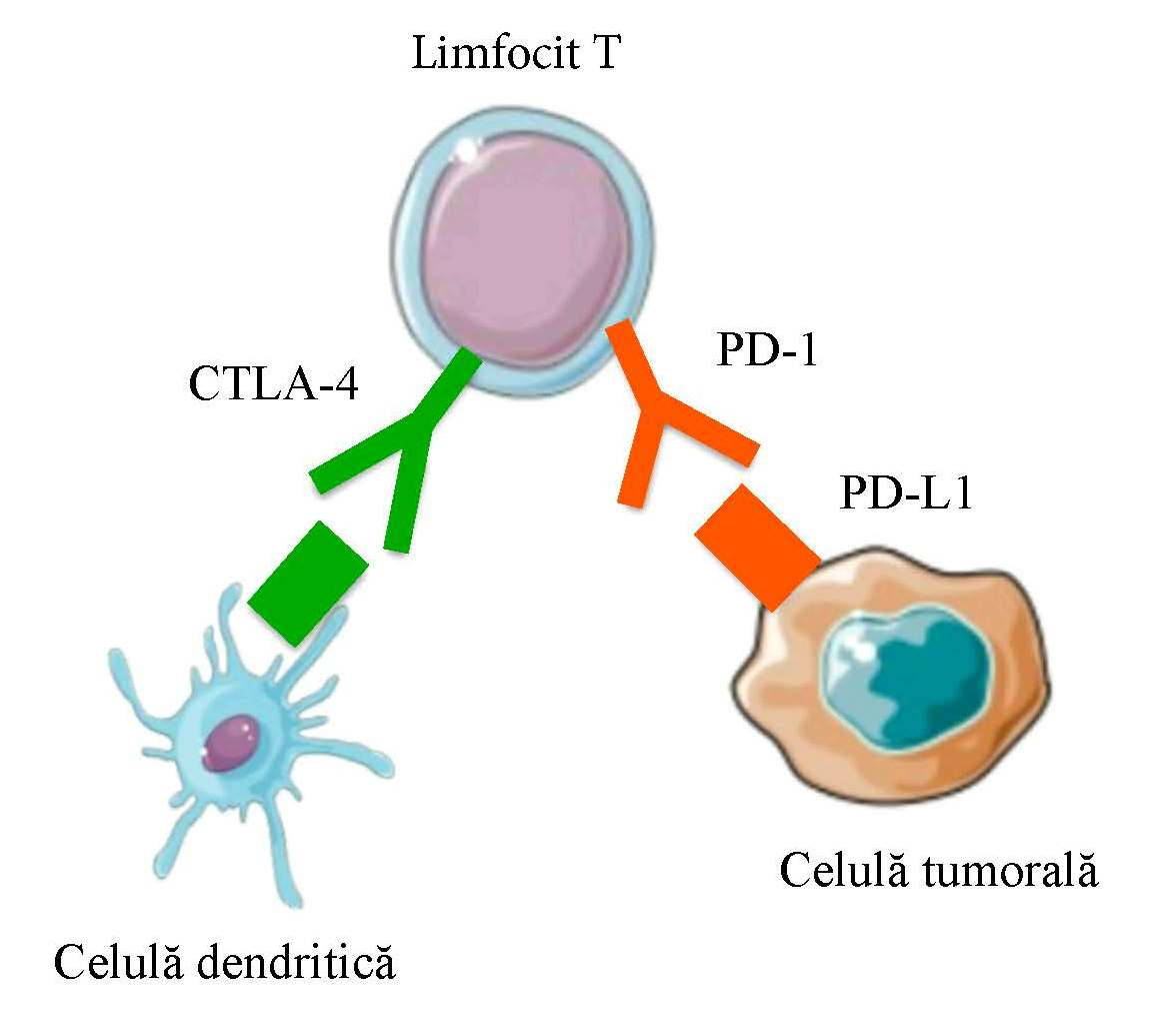 CTLA-4 and PD-1 receptor